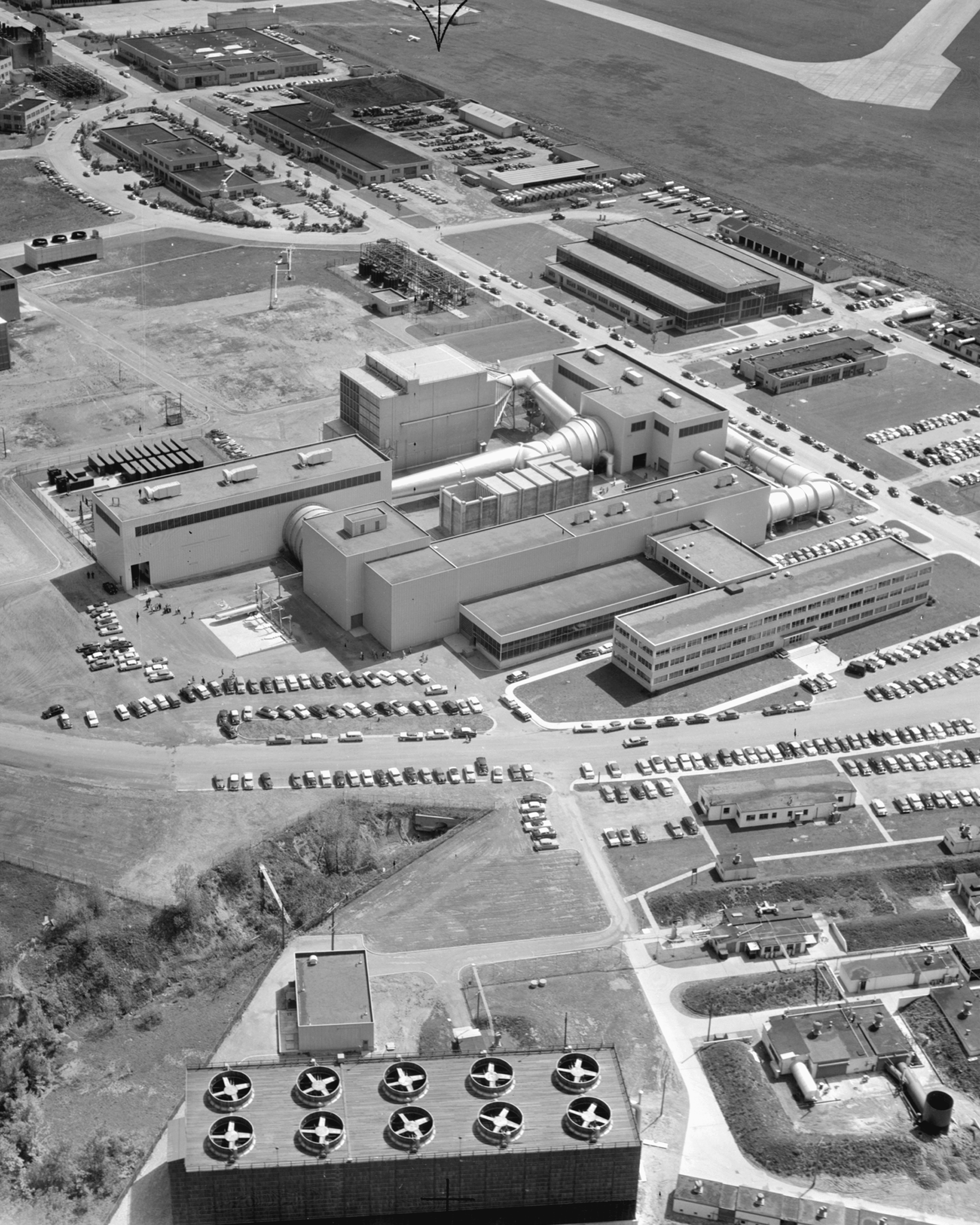 NACA-Lewis 10ft x 10ft Unitary Supersonic Wind Tunnel. The Unitary Wind Tunnel Plan Act of Congress, a post-war act, stipulated that NACA wind tunnels were to be made available to industry for testing. This push was to encourage the improvement of existing aircraft engines. This aerial view shows the size of the facility. The Lewis Center is now known as the John H. Glenn Research Center.